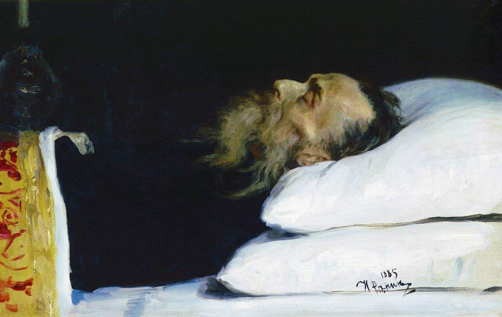 Historian Nikolai Ivanovich Kostomarov in His Coffin.